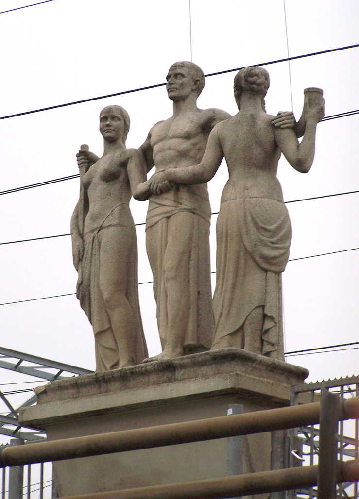 De Eendracht Van Het Land designed by Gerrit Jan van der Veen, sculptured by G.W. Harmsen. Placed on top of the Leidseveer-viaduct in Utrecht in 1940. It was the last statue made by this by Gerrit Jan. During the war he was a part of the Dutch resistance.